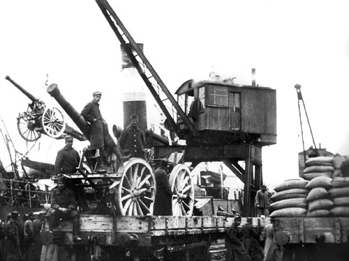 Greek troops loading artillery at the port of Smyrna (Izmir)